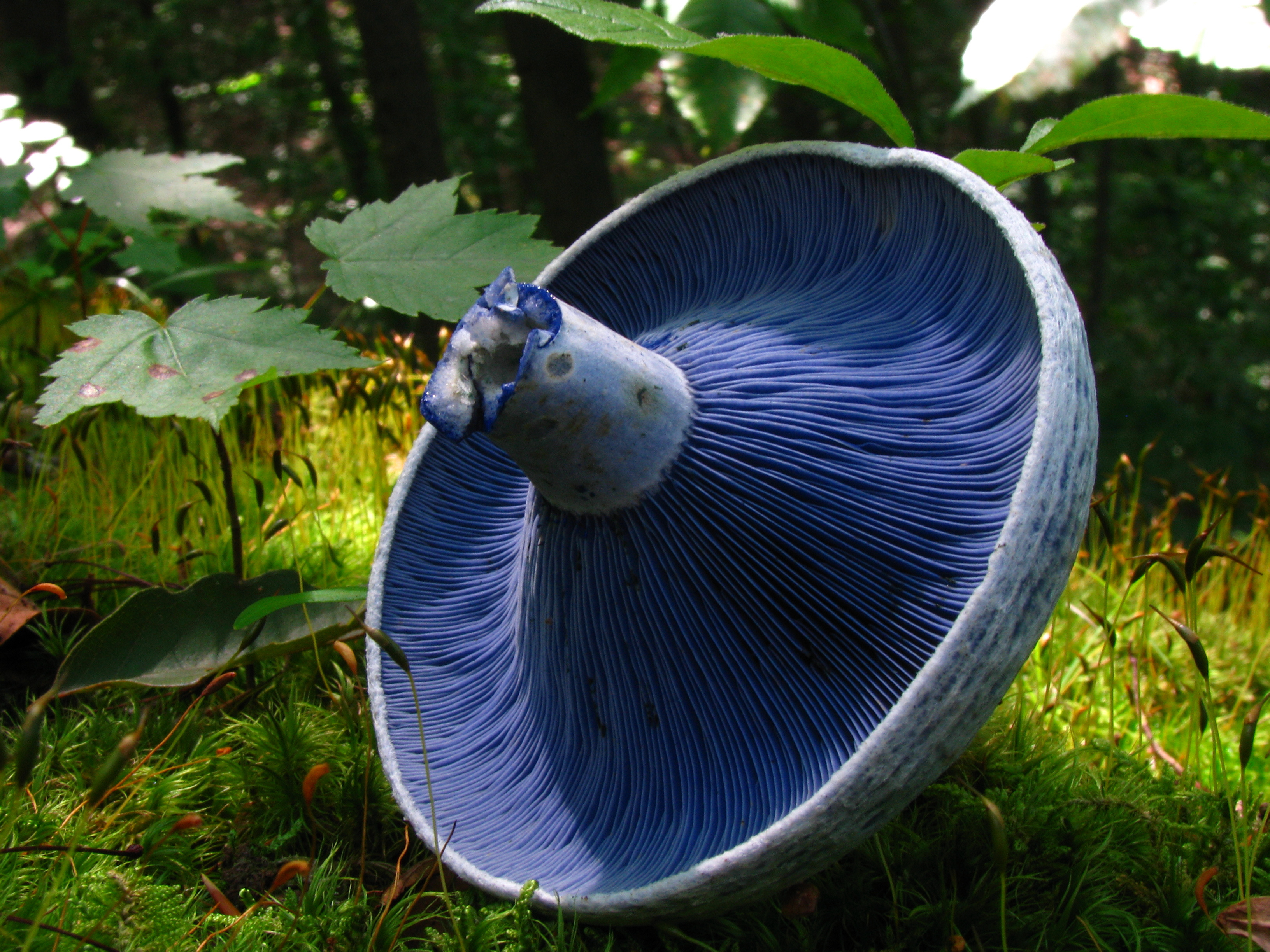 The "indigo Lactarius", species Lactarius indigo (Schwein.) Fr. Specimen photographed in Strouds Run State Park, Athens, Ohio, USA.